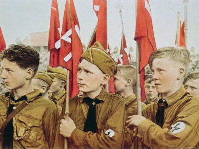 Hitler-Jugend - Youth organization of the National-socialist German workers ' party.